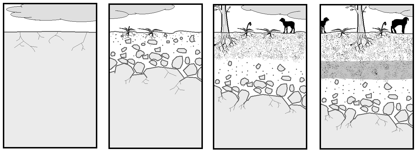 Different stages of soil development. Are formed the different soil horizons by weathering of parent rock, then installed the first living organisms, providing organic matter and weathering continued, and later filter out fine particles to form a new horizon.